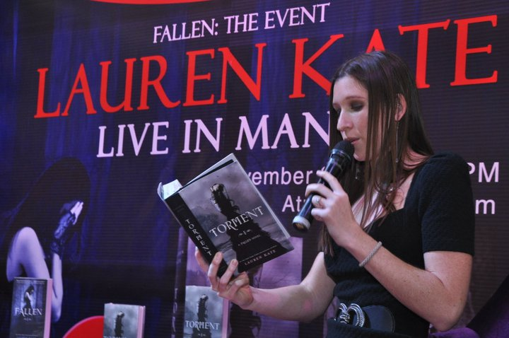 Lauren Kate, Manila.